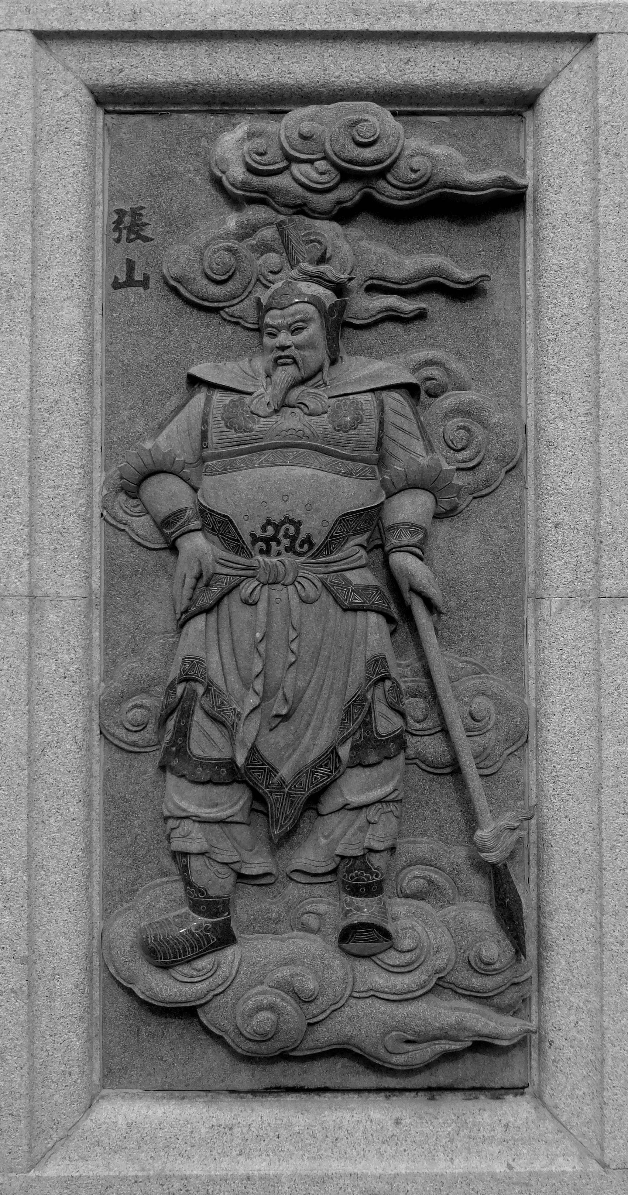 090 Zhang Shan, Investiture of the Gods at Ping Sien Si, Pasir Panjang, Perak, Malaysia Photograph from the Ping Sien Si Temple in Perak, Malaysia taken by Anandajoti.